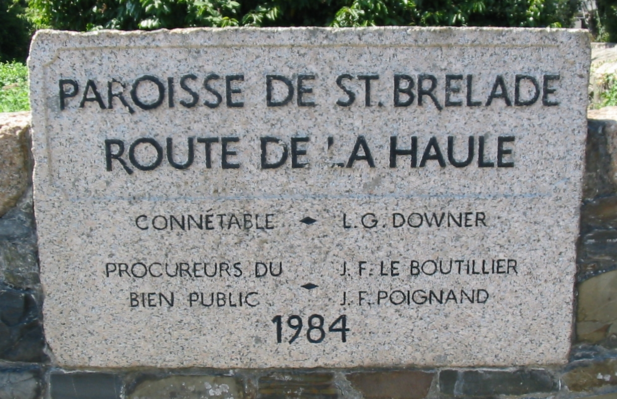 Route de La Haule, Saint Brelade, Jersey